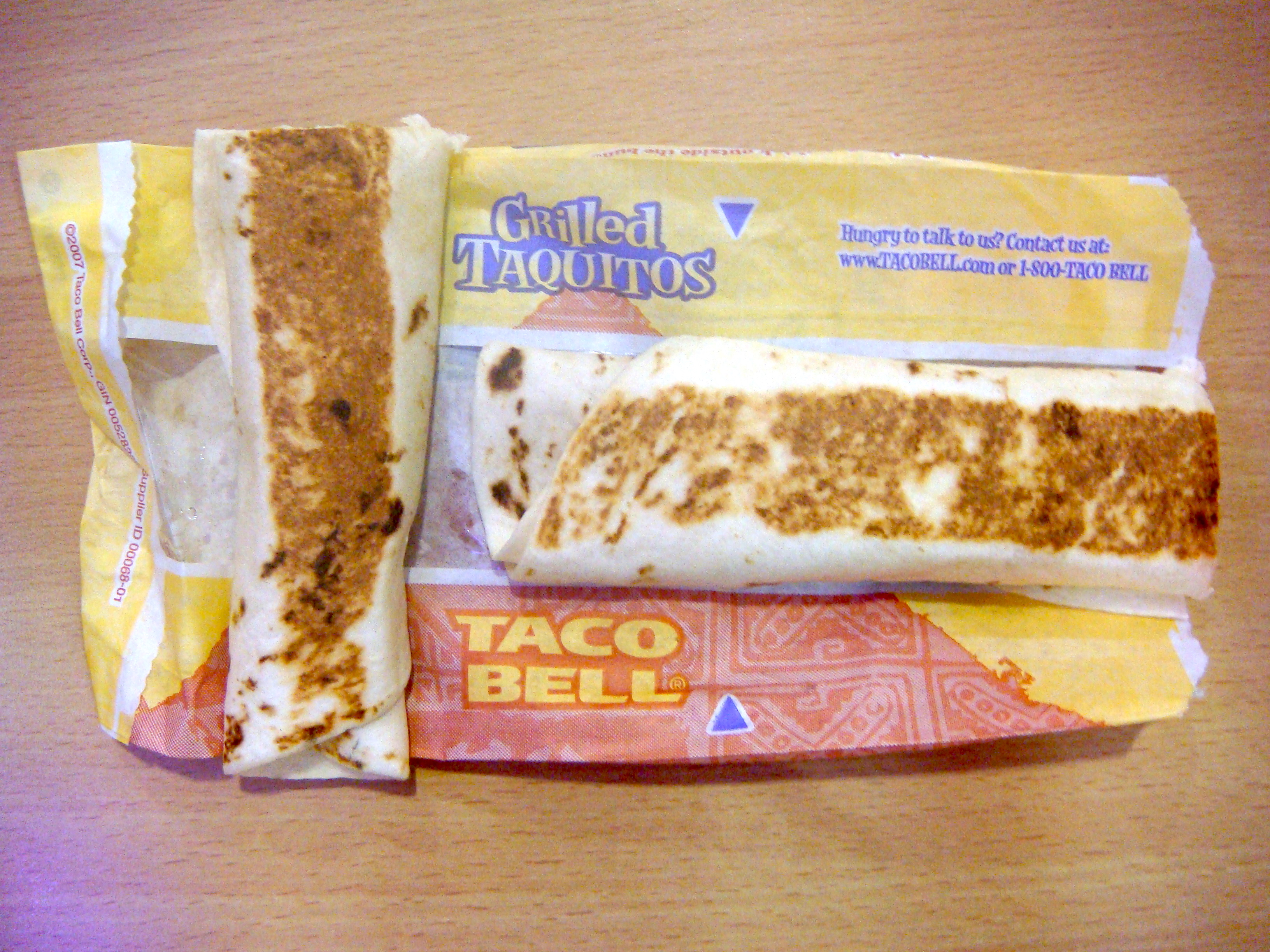 Grilled taquitos